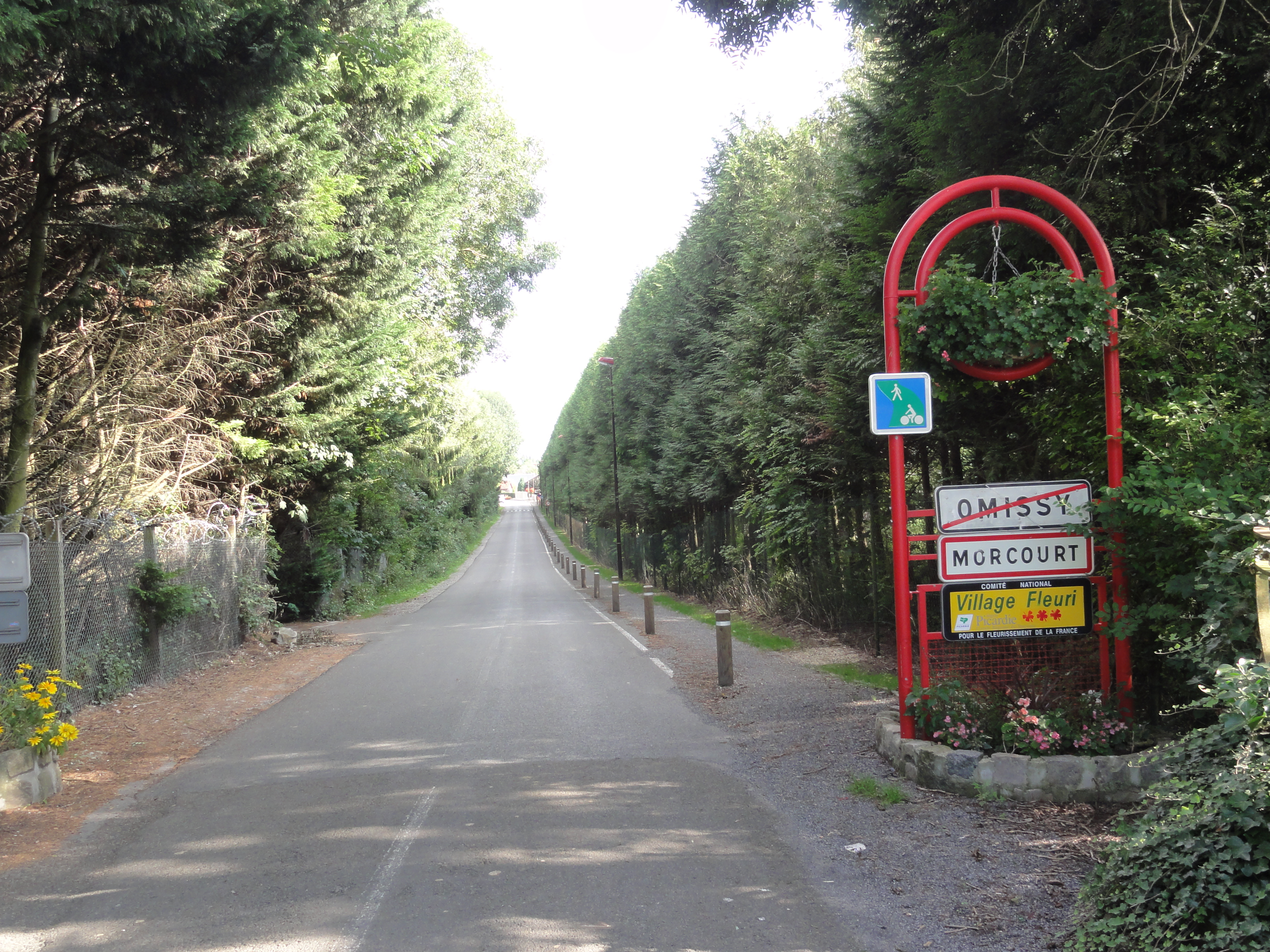 Morcourt (Aisne) city limit sign